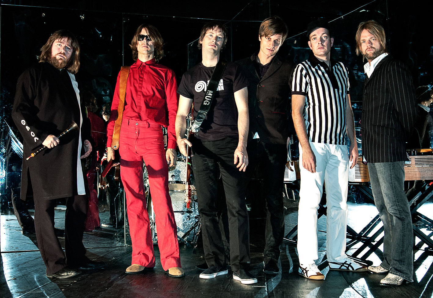 This is a picture of the group the Soundtrack of our lives, T.S.O.O.L. I, Boel Ferm, shot this behind the scenes during a break when the group was being filmed for a promotional music video. From left to right Torbjörn "Ebbot" Lundberg, Mattias Bärjed, Kalle Gustafsson Jerneholm, Martin Hederos, Fredrik Sandsten and Ian Person.